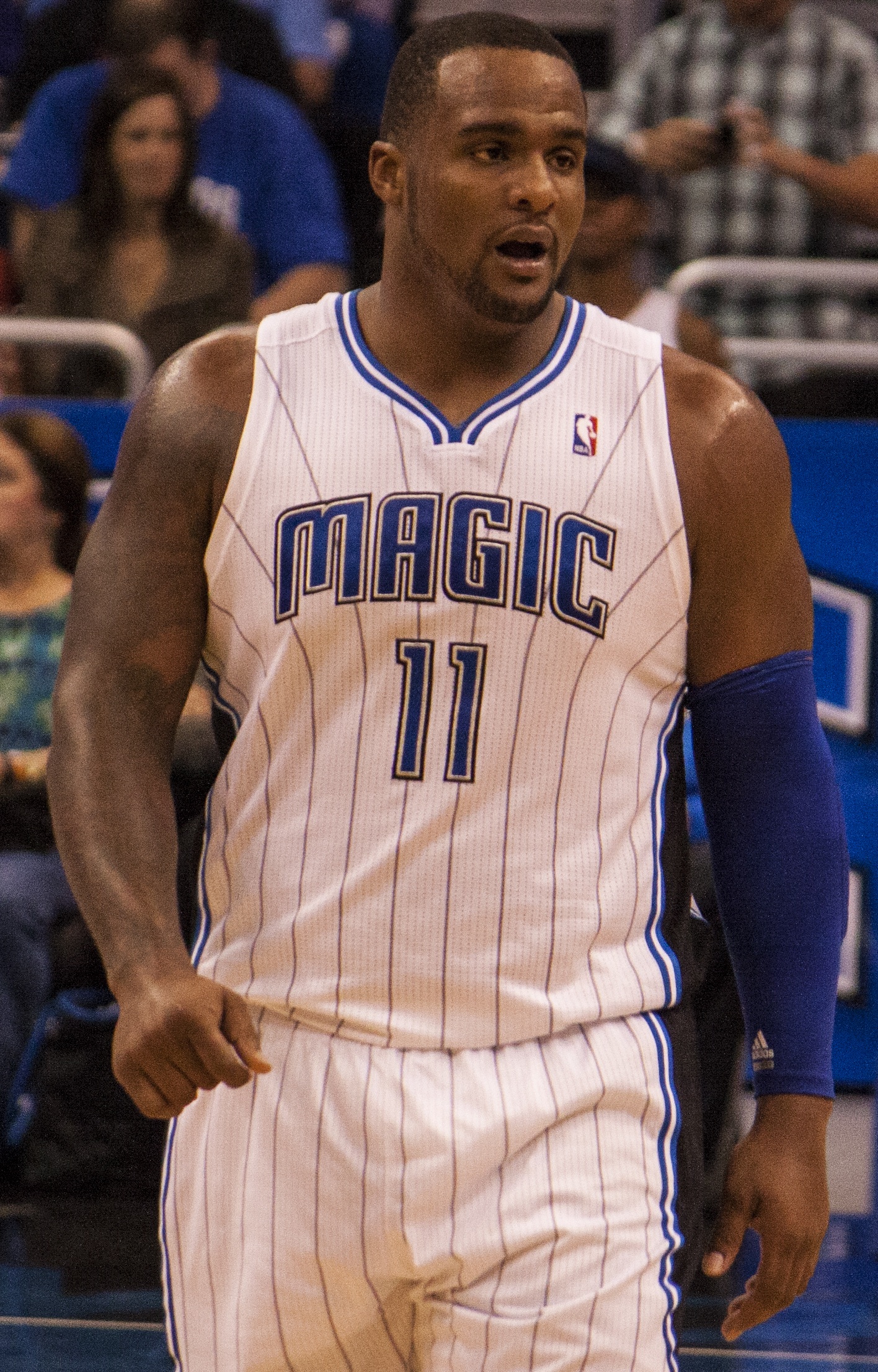 Glen "Big Baby" Davis of the Orlando Magic.